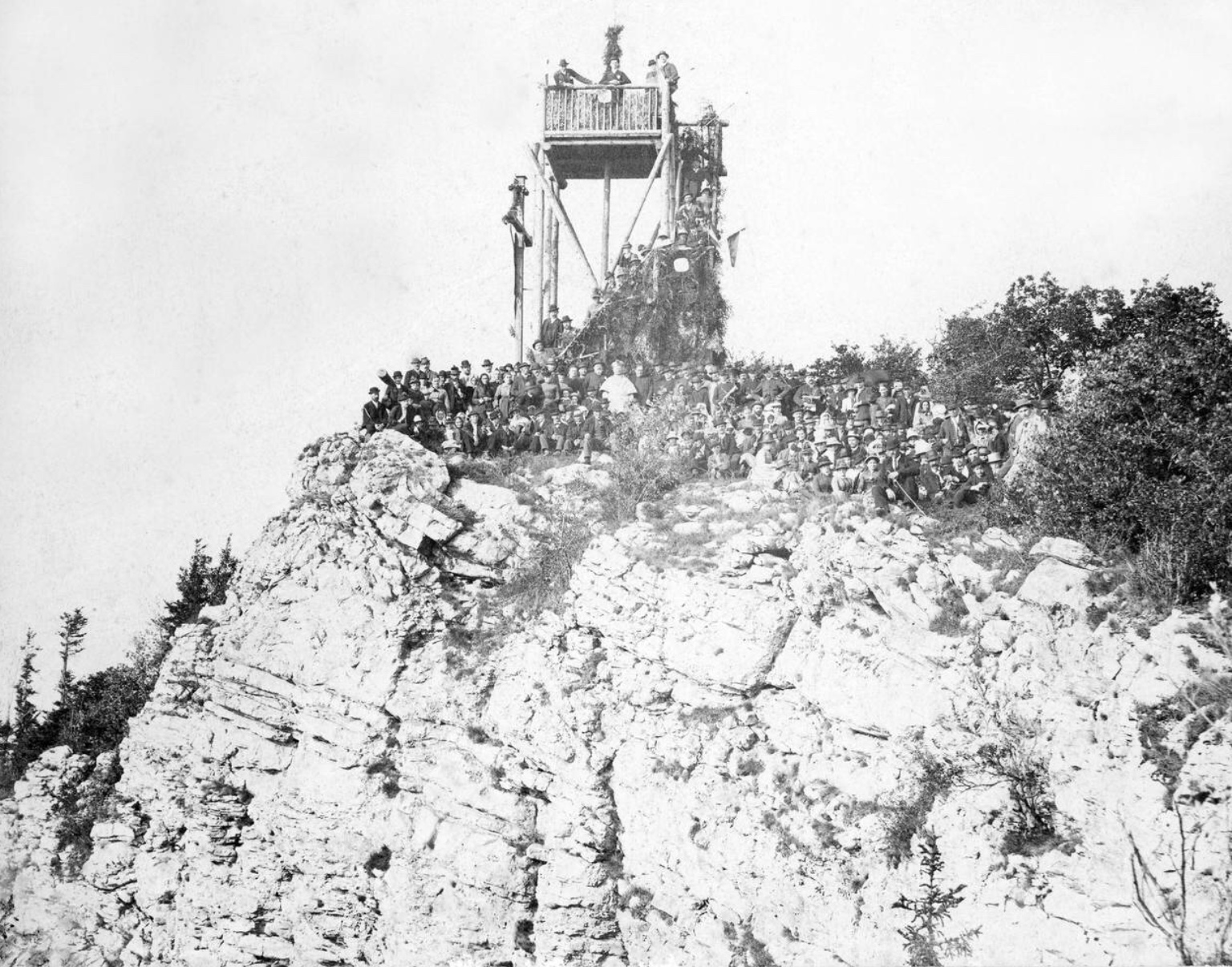 Urlingerwarte 1888